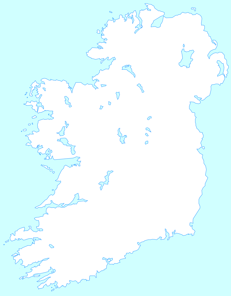 Blank map of Ireland